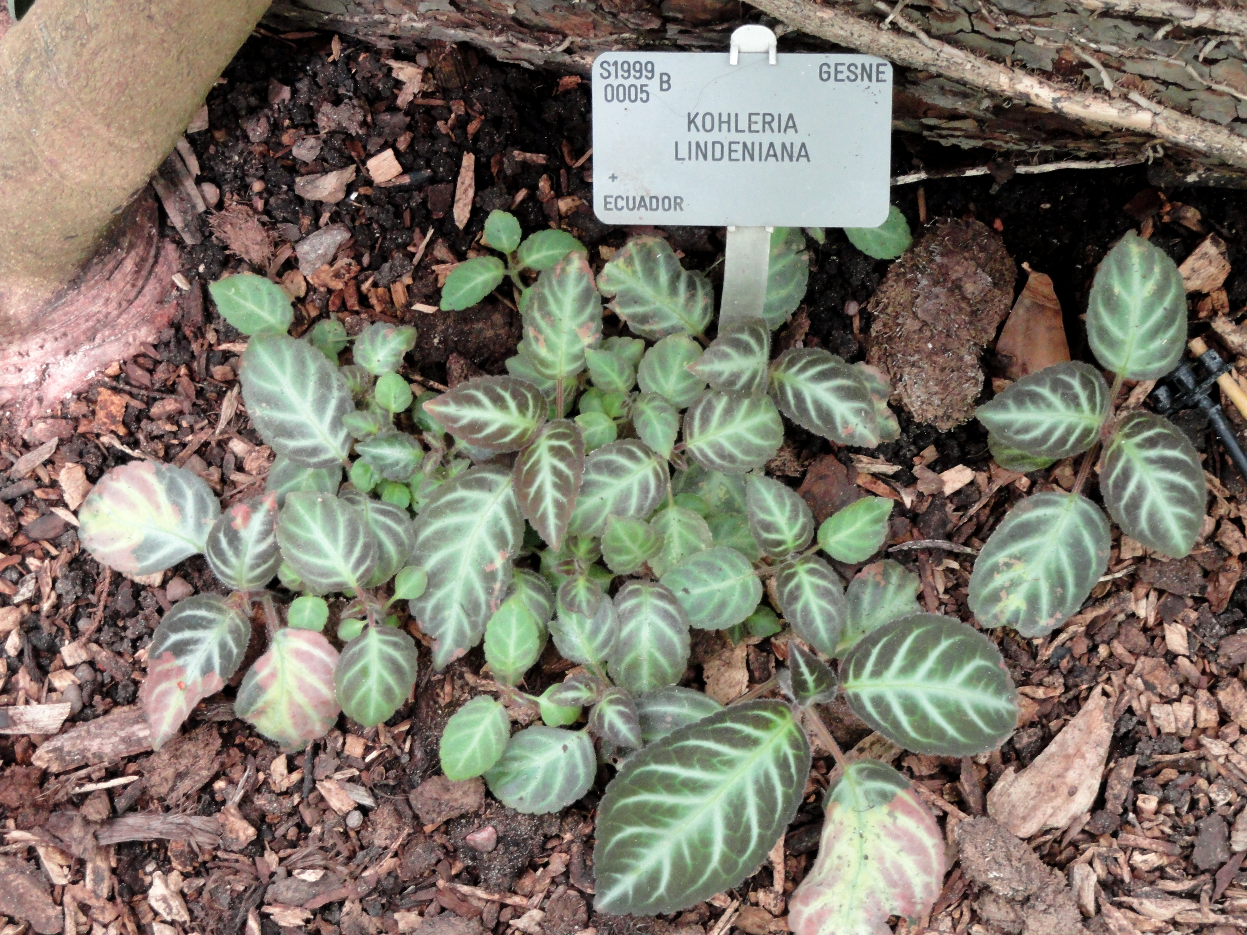 Botanical specimen in the University of Copenhagen Botanical Garden, Copenhagen, Denmark.